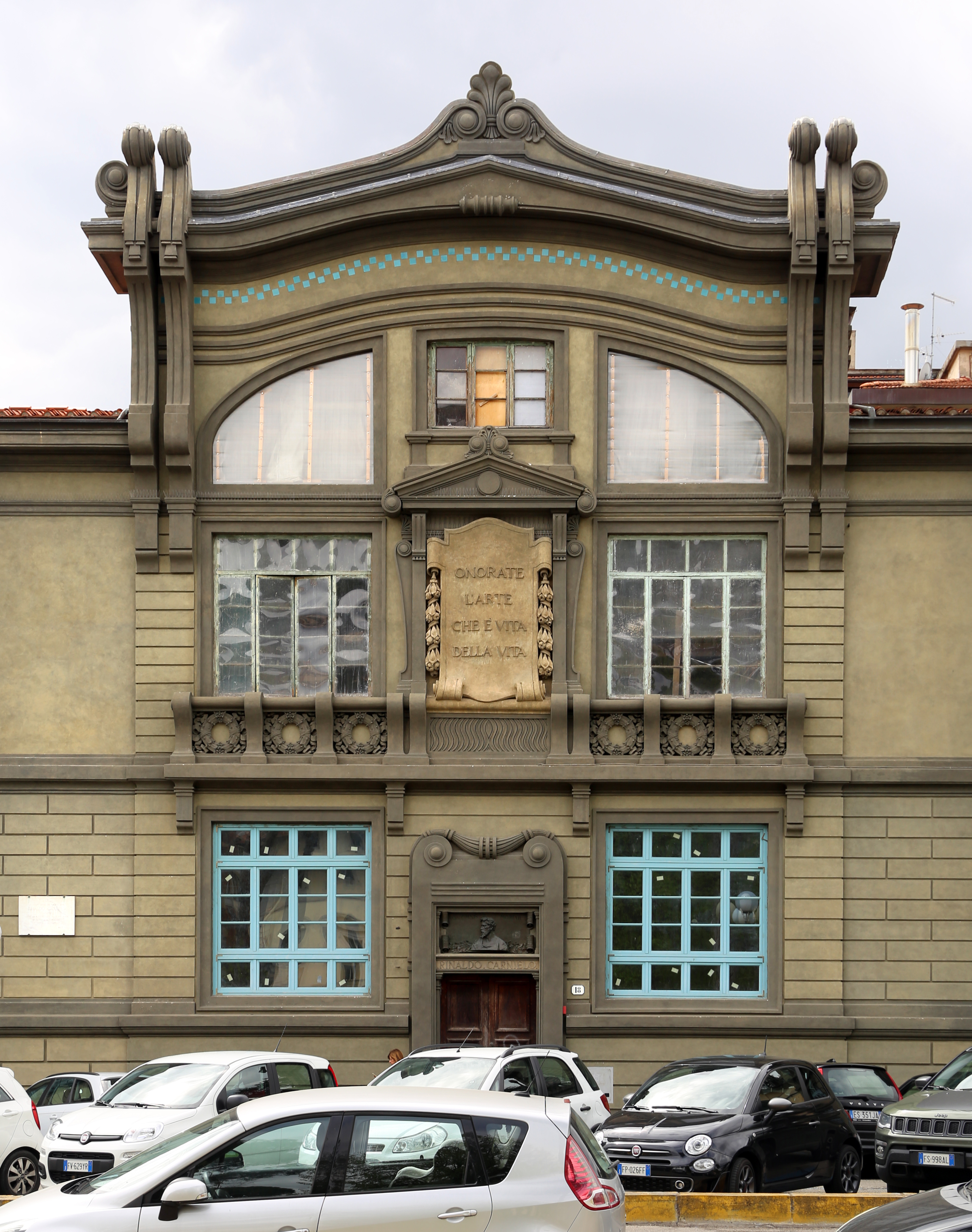 Galleria Rinaldo Carnielo